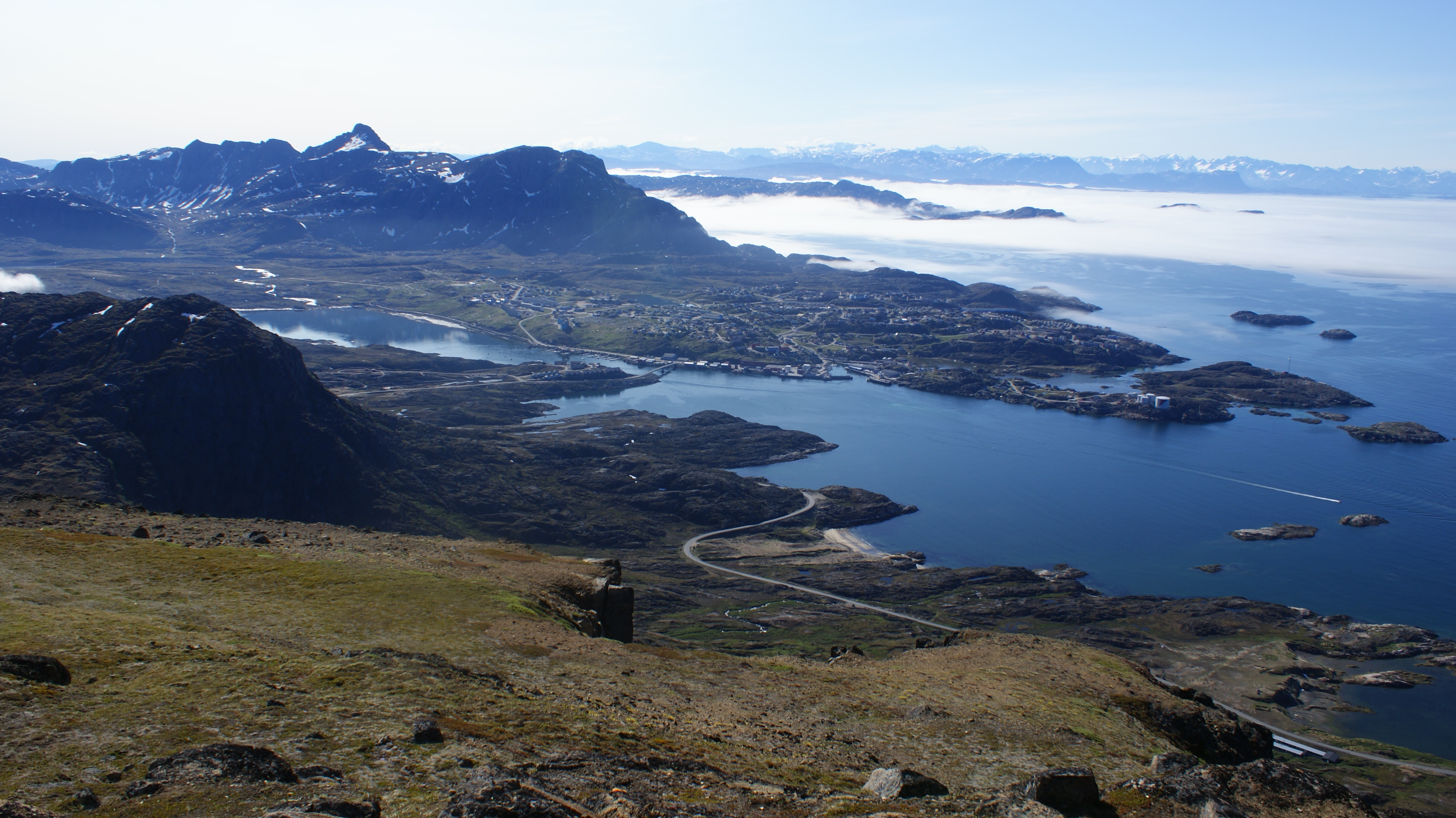 View to the south from the summit of Palasip Qaqqaa (544m) in western Greenland: the road to Sisimiut Airport, Kangerluarsunnguaq Bay, Sisimiut, Nasaasaaq (784m), Amerloq fjord (under low clouds), Maniitsorsuaq Island, Uummannaarsuk, Ikertooq Fjord (under low clouds), Itilleq, and Paornaqussuit Qavat, the glaciated mountain range bounding Kangerlussuaq Fjord from the northwest.